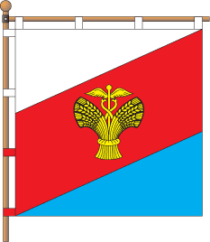 Flag of Balta City, Ucraine